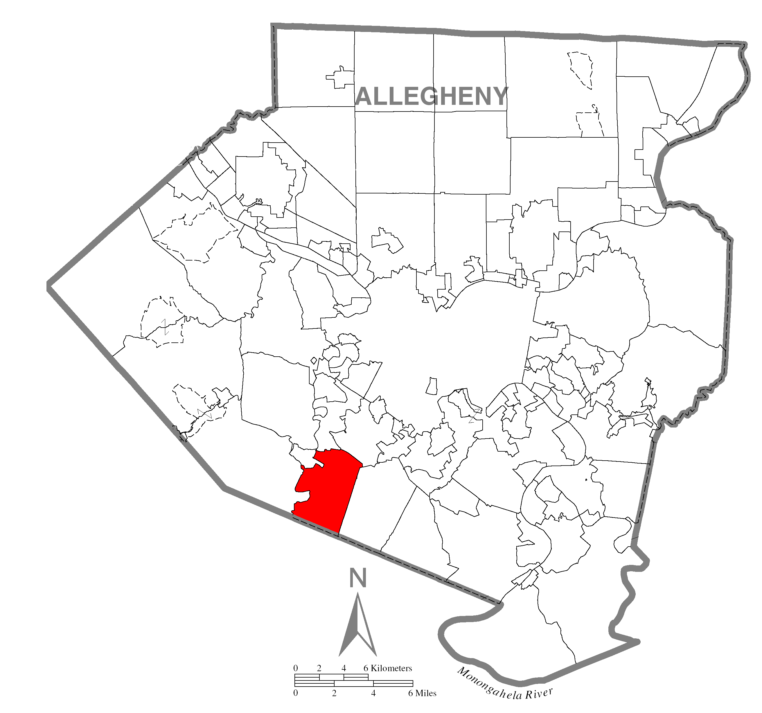 A map of Allegheny County showing Upper St. Clair Township, Pennsylvania (alternate) highlighted on the map.